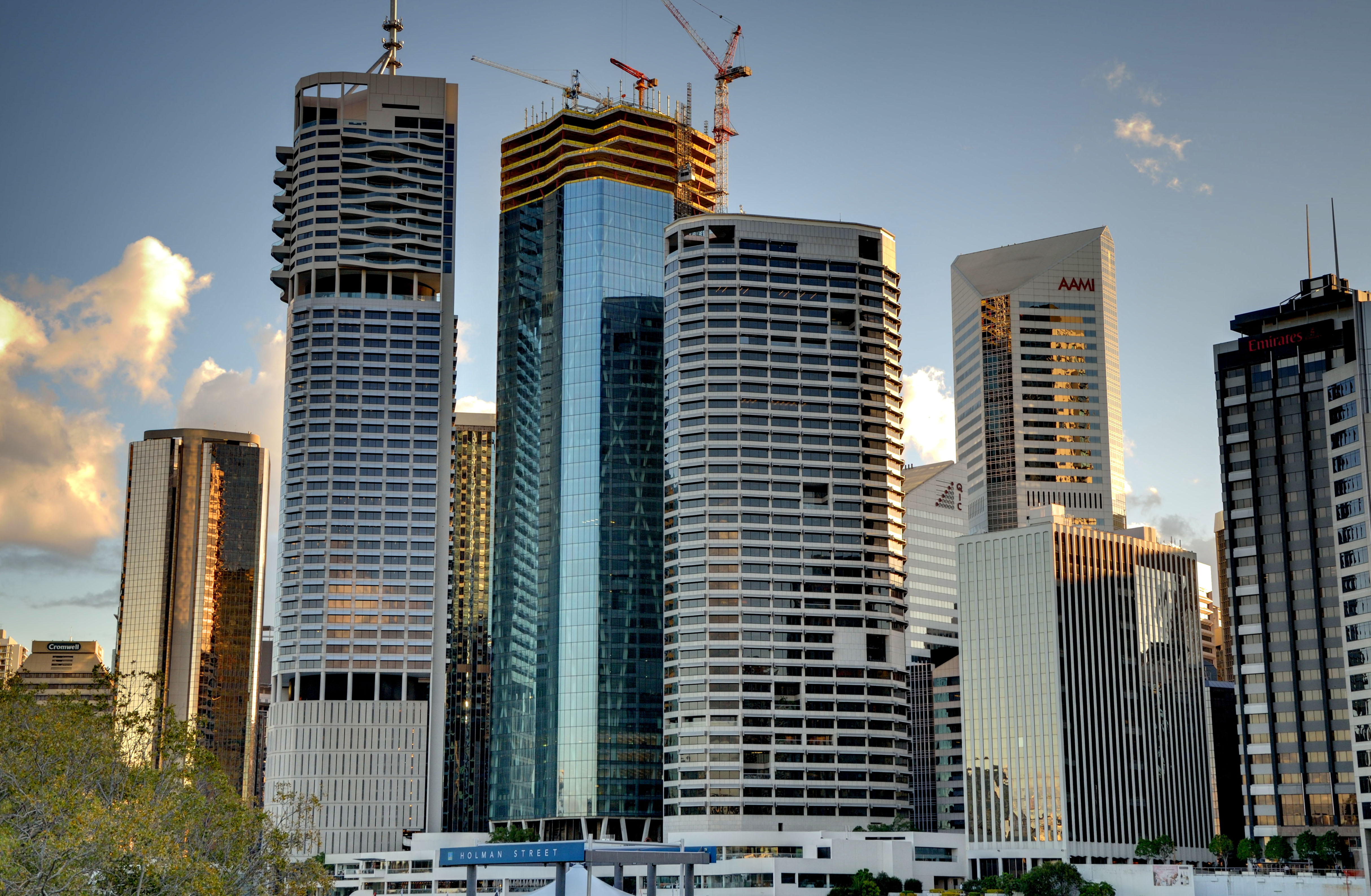 Skyscrapers in the Brisbane CBD, taken from Kangaroo Point.